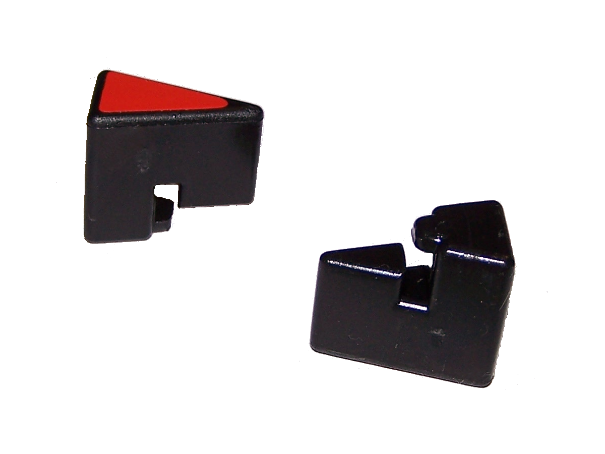 2 of 8 edge pieces of a Square One